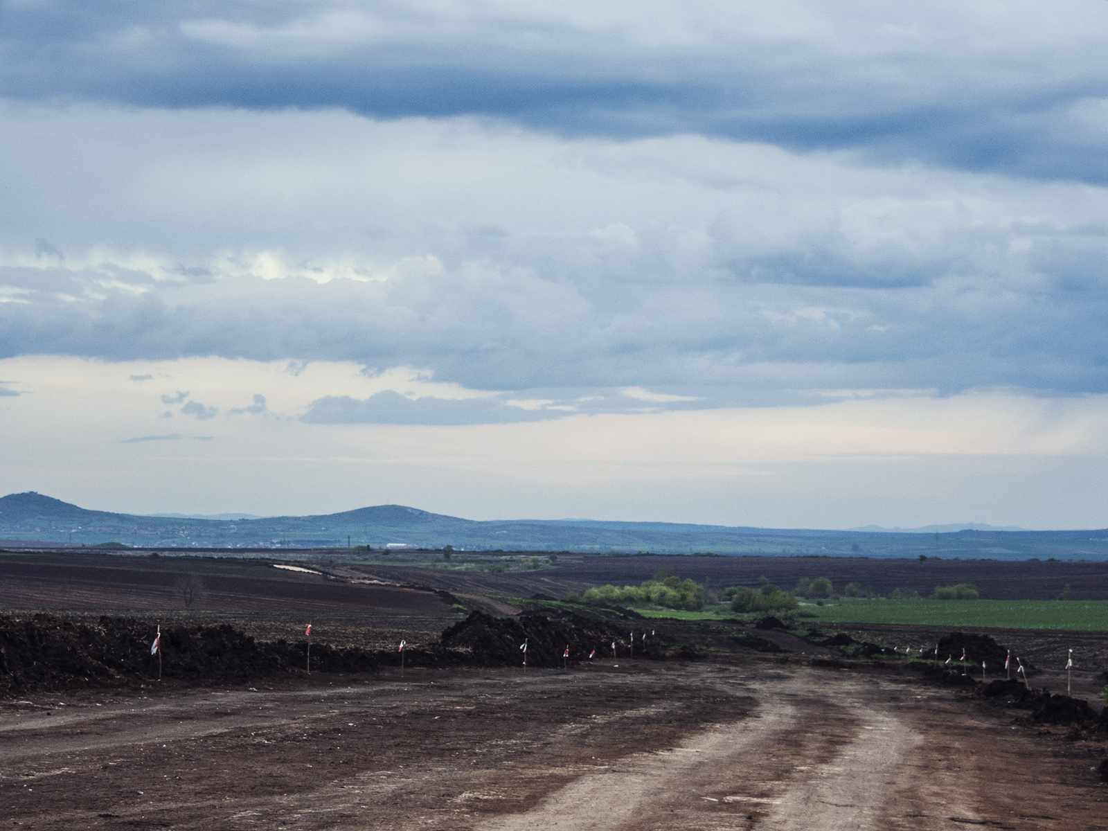 Maritsa motorway LOT1 as being built on 15 Apr 2012